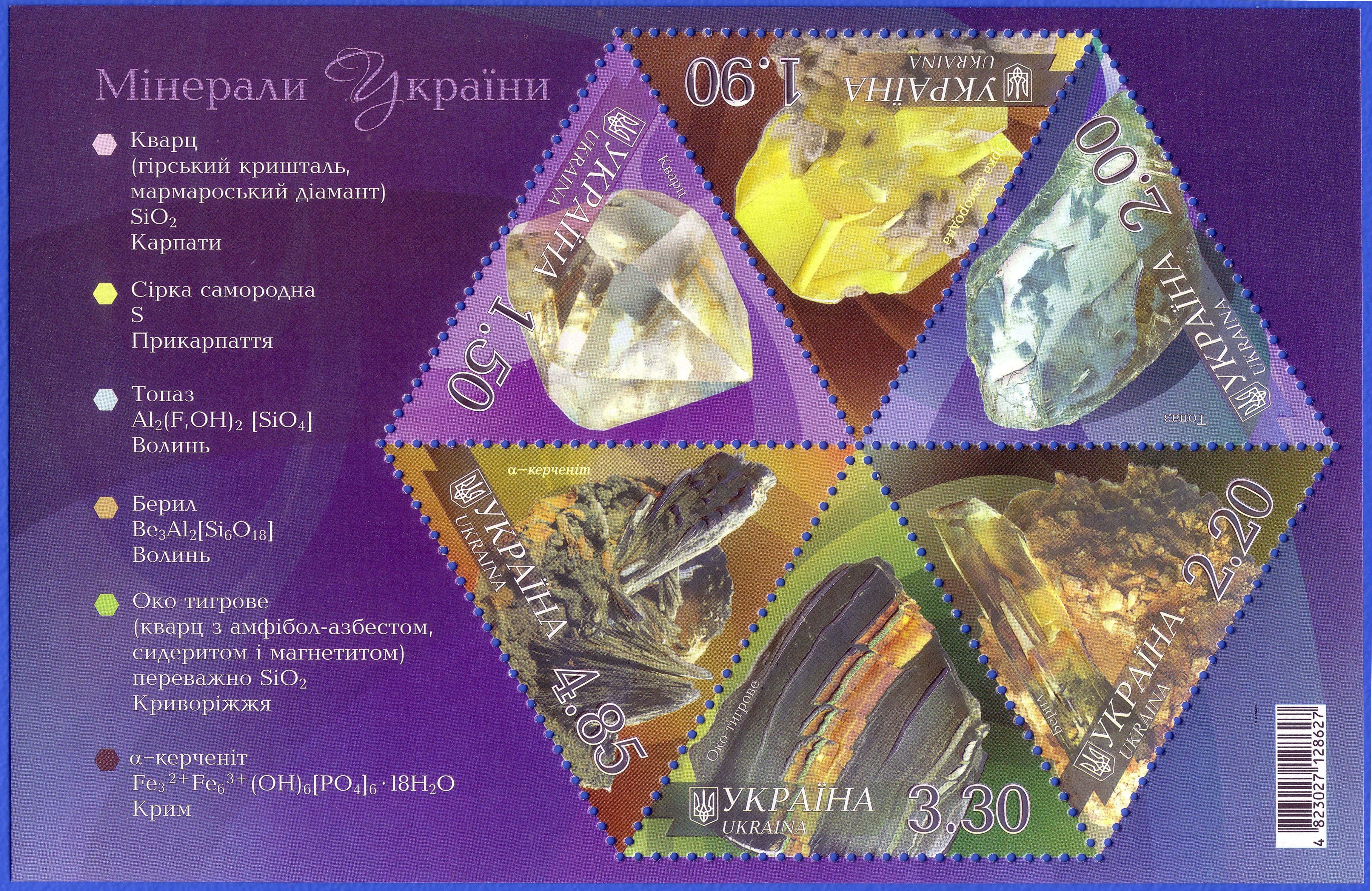 Postal unit with six triangular stamps Ukraine from the series "Minerals". 2009. Clockwise from top: sulfur, topaz, beryl, tiger's eye, metavivianite, quartz.